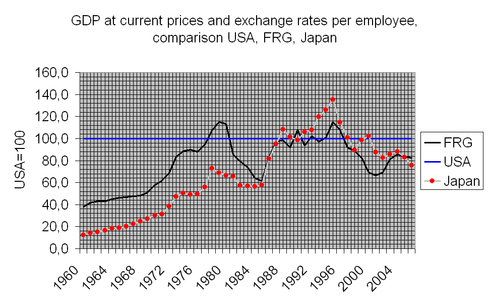 Labour productivity computed by me as Gross Domestic Product in current prices at current exchange rates per employee. Data used are from: Ameco-data base of EU-Comission offices